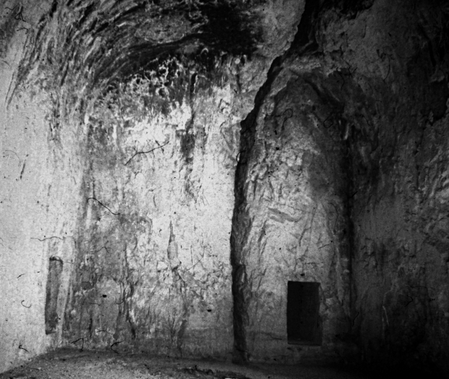 I took these photos on a holiday in Van in 1973